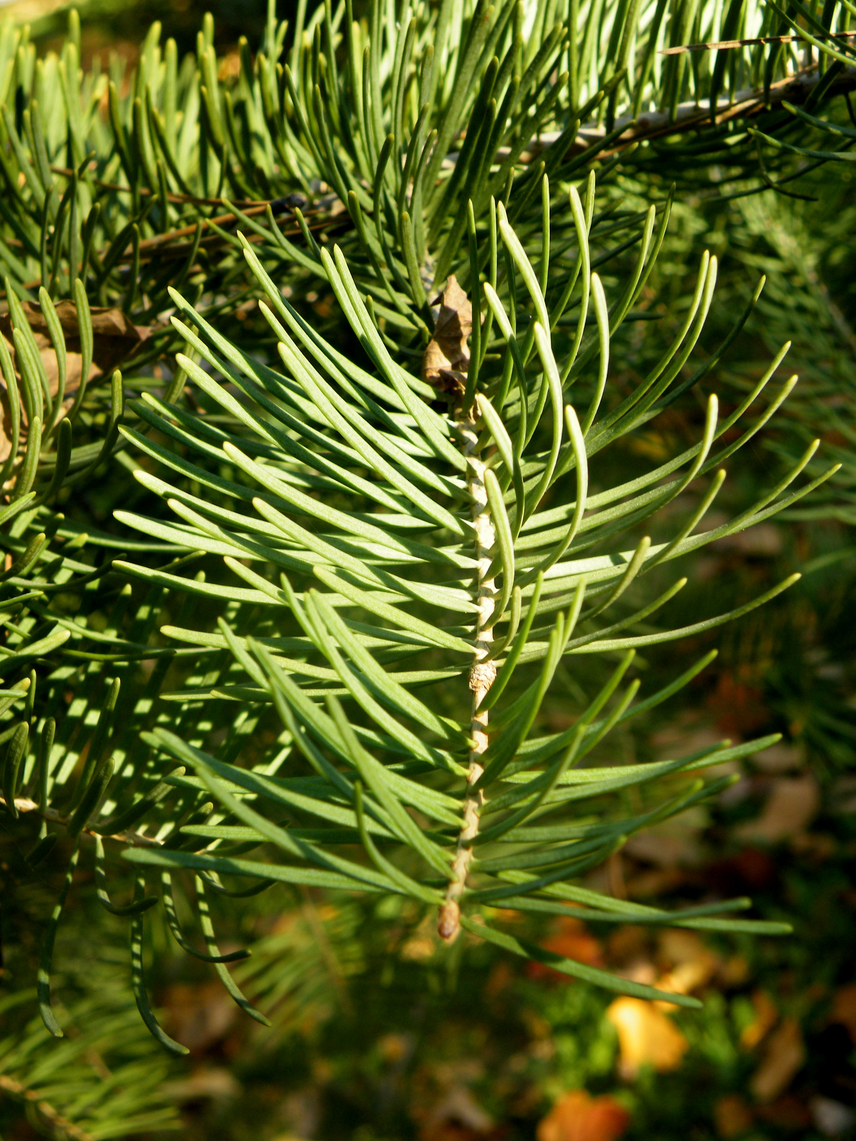 Abies concolor, commonly known as the white fir, is a fir native to the mountains of western North America, occurring at elevations of 900–3,400 m (3,000–11,200 ft). It is a medium to large evergreen coniferous tree growing to 25–40 m tall and with a trunk diameter of up to 2 m (6.6 ft). It is popular as an ornamental landscaping tree and as a Christmas tree. It is sometimes known as concolor fir. This media file is produced by Wikipedian in Residence in Botanical Garden Jevremovac in 2015.